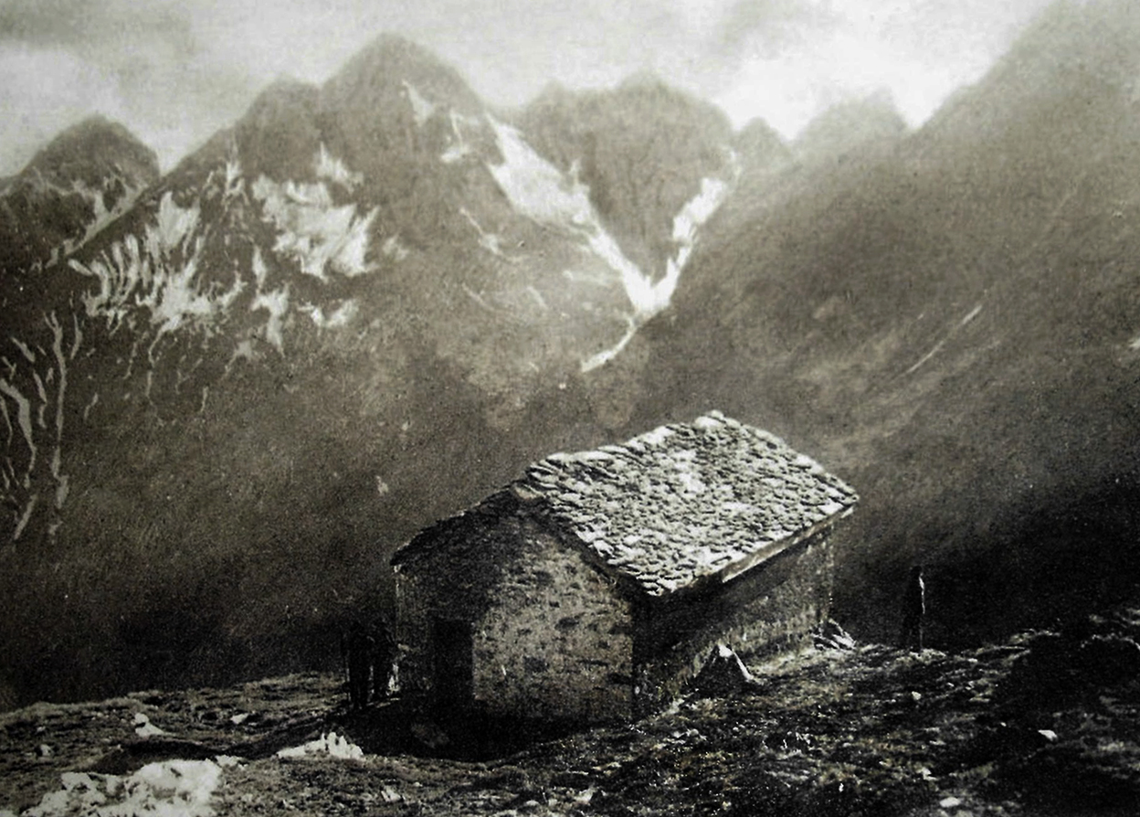 Baroni al Brunone hut seen in an old picture